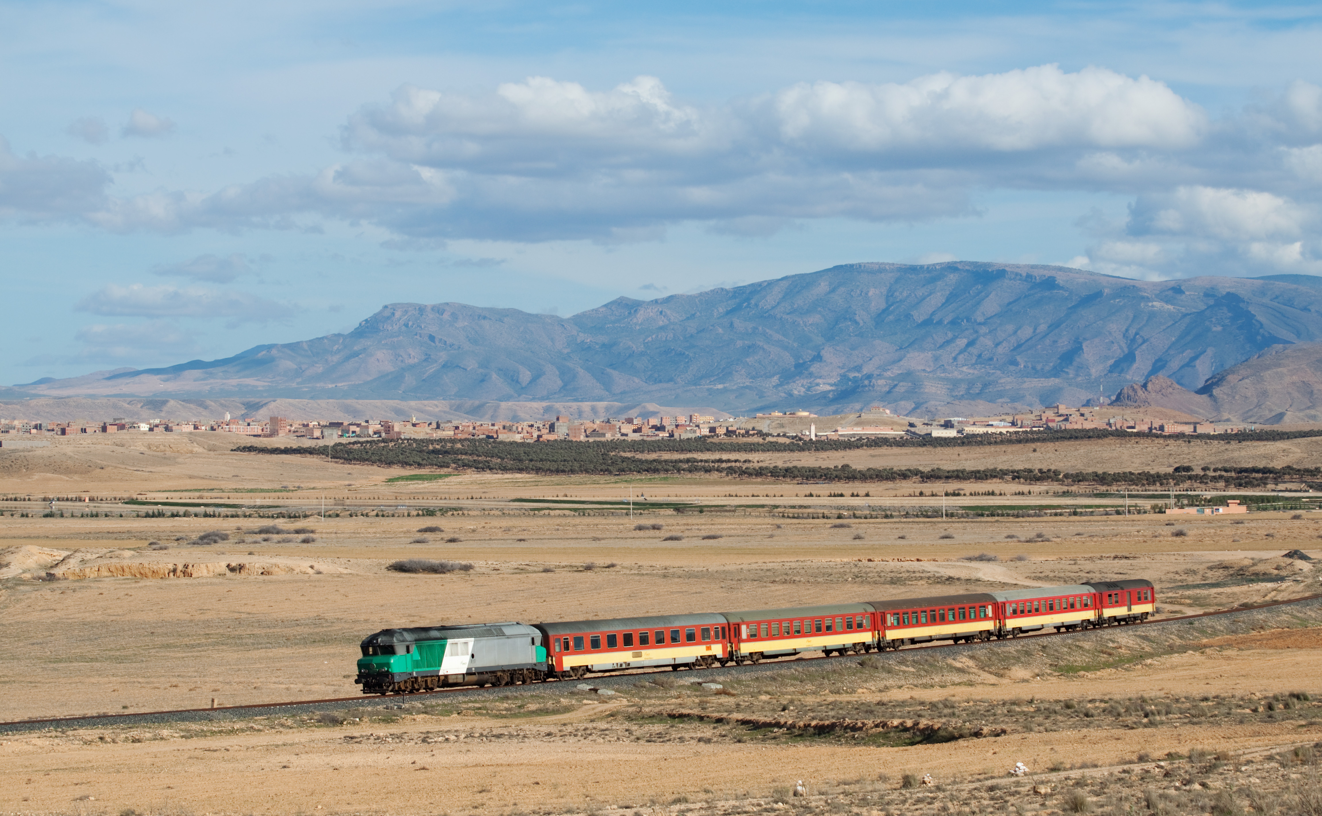 ONCF class DF 115 (number 117, former SNCF number 72085), still carrying the SNCF FRET colors (the logos have been removed though), near Taourirt, Morocco. The train is on its way to Nador, but has not yet reached the junction where the line to Nador branches from the line to Taza.